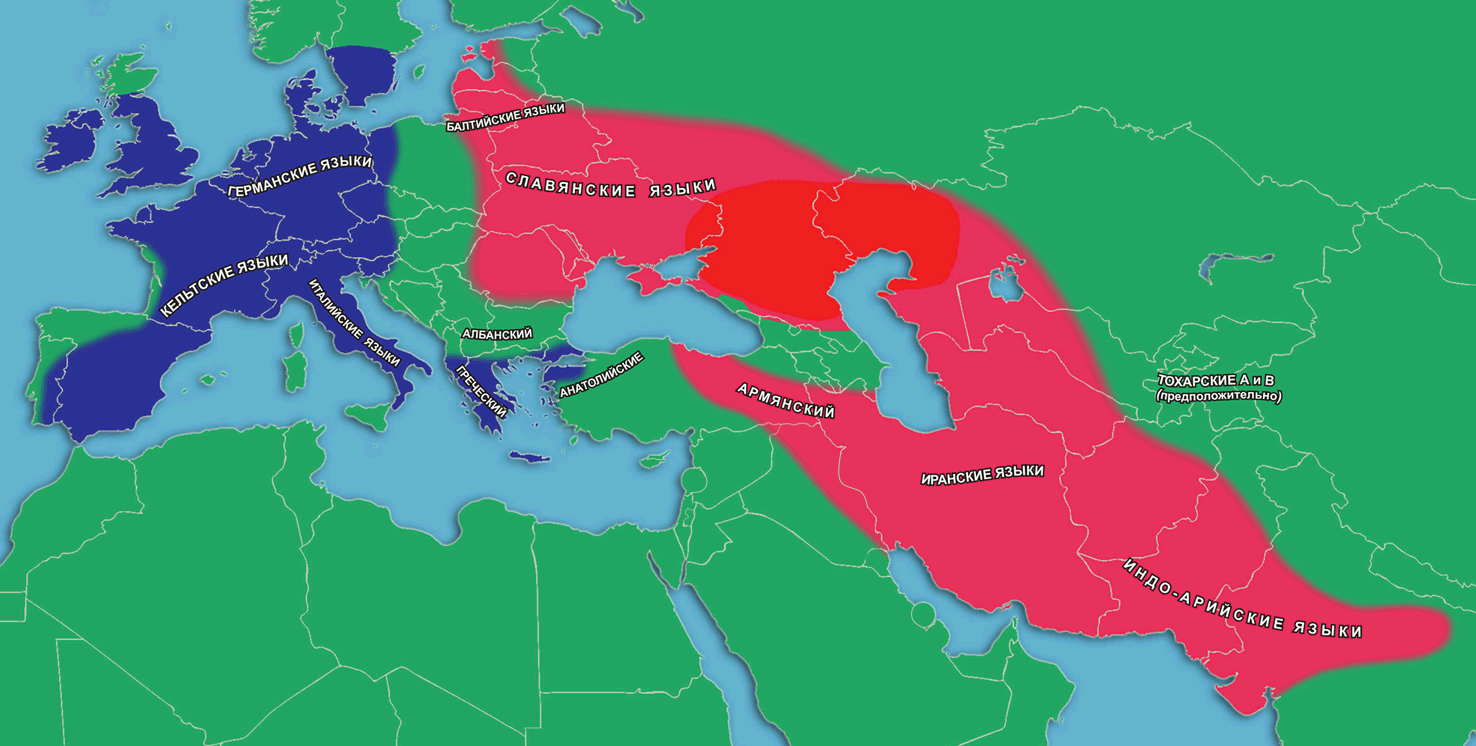 Centum and Satem areas in Eurasia